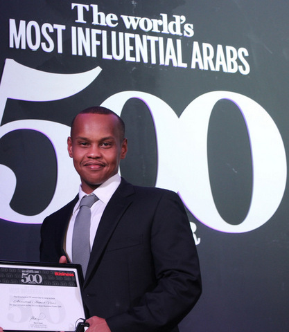 Eng. Mohamed Osman Baloola - The World's 500 Most influential Arabs in 2012[